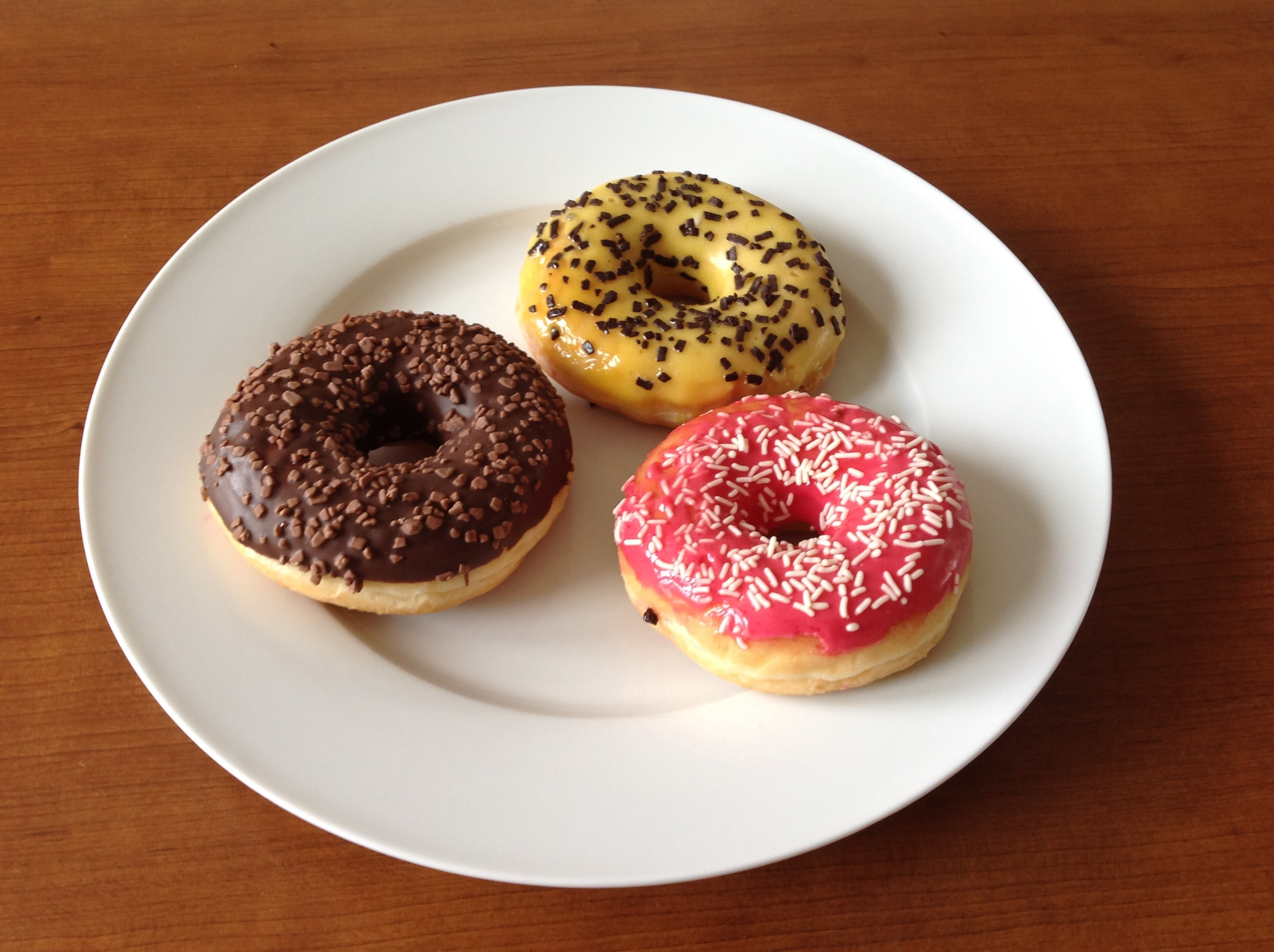 Donuts with chocolate banana and strawberry